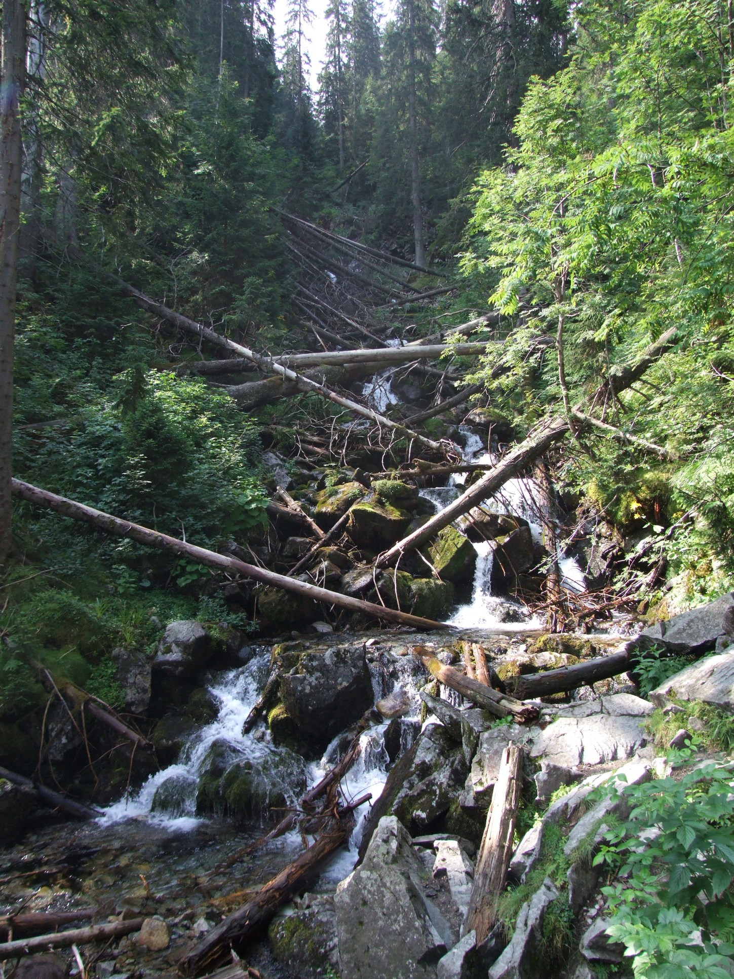 Rohacki Potok (West Tatra Mountains)